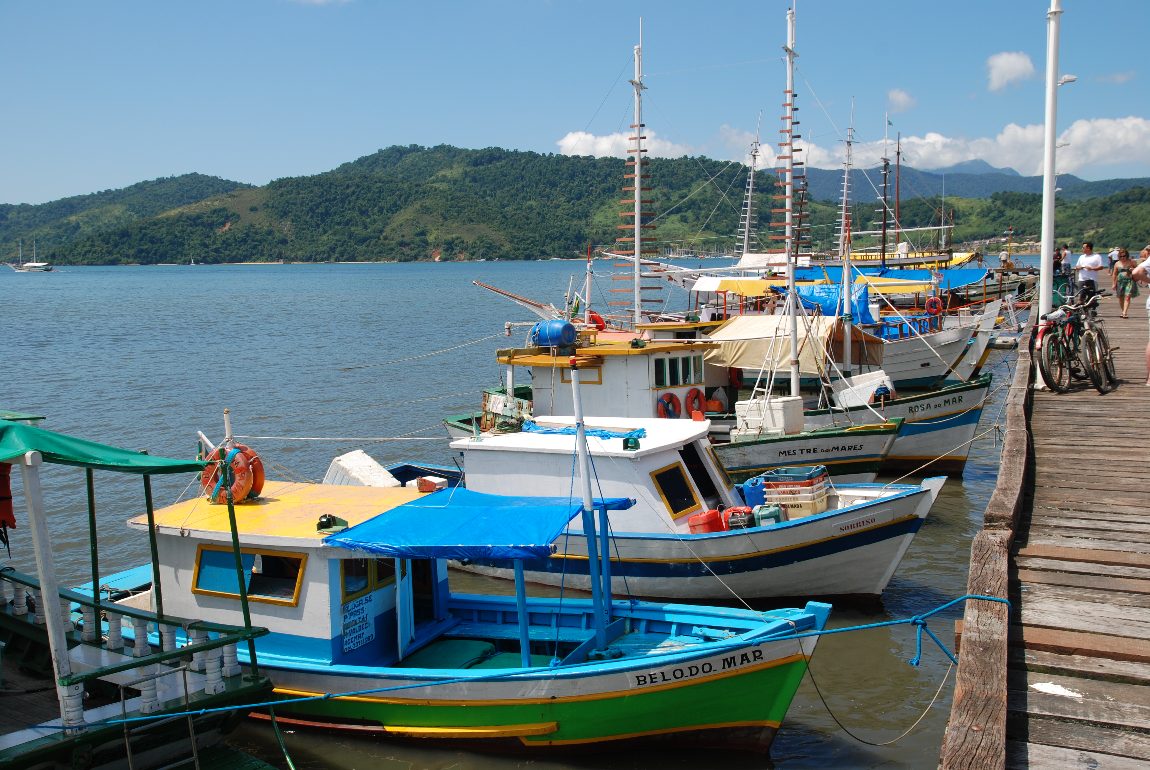 Boats in the harbour of the touristy colonial city of Paraty, Rio de Janeiro state, Brazil